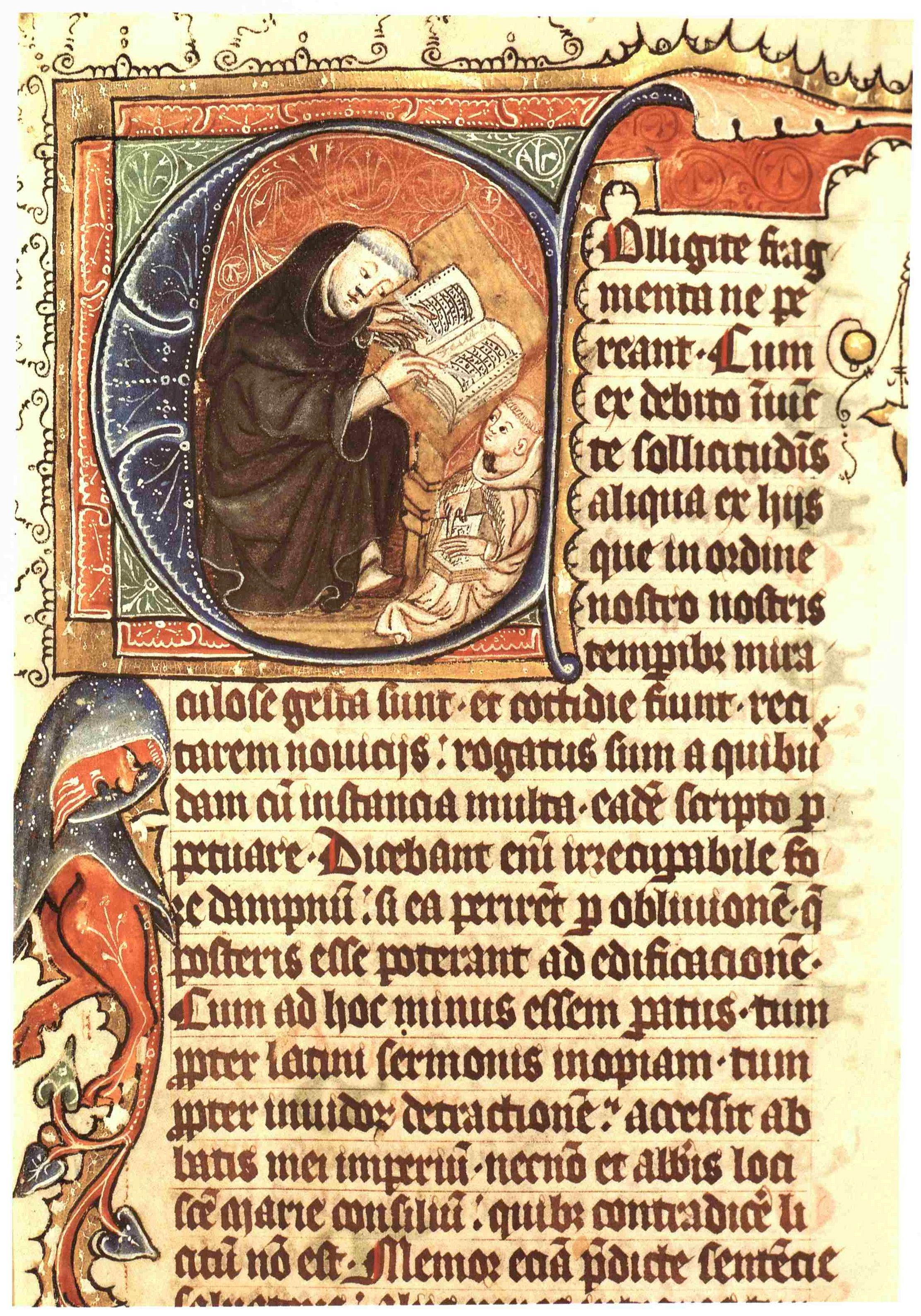 The beginning of the „Dialogus miraculorum“ in the manuscript Düsseldorf, Universitäts- und Landesbibliothek, Ms. C 27, fol. 1r, with a portrait of the author in the initial letter.